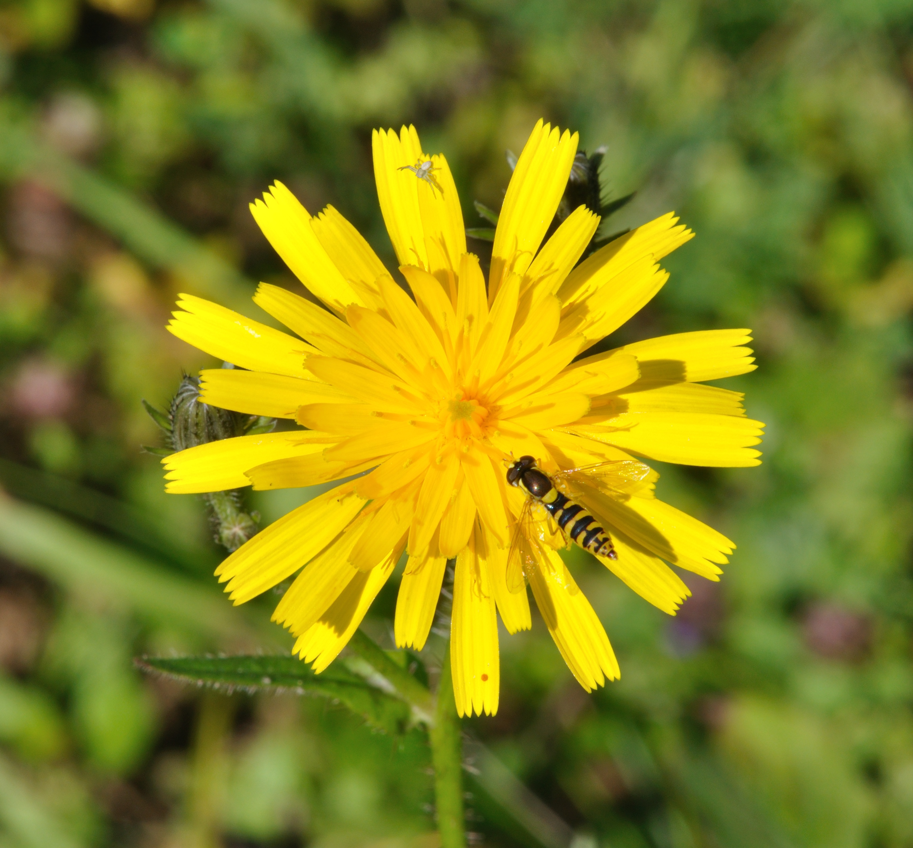 Female Long Hoverfly (Sphaerophoria scripta) on Hawkweed Oxtongue (Picris hieracioides) watched by a small Flower Crab Spider (Misumena vatia) near the old airstrip, Frankfurt, Germany.